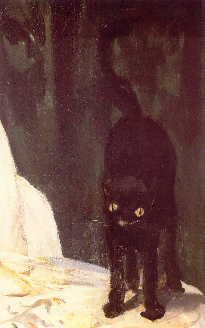 Detail of Edouard Manet's Olympia. (The black cat)